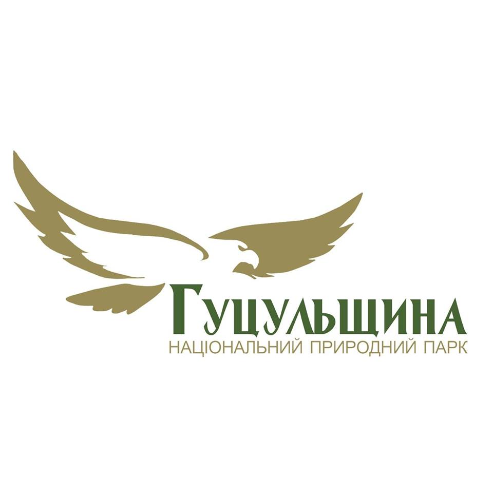 Hutsulshchyna National Nature Park